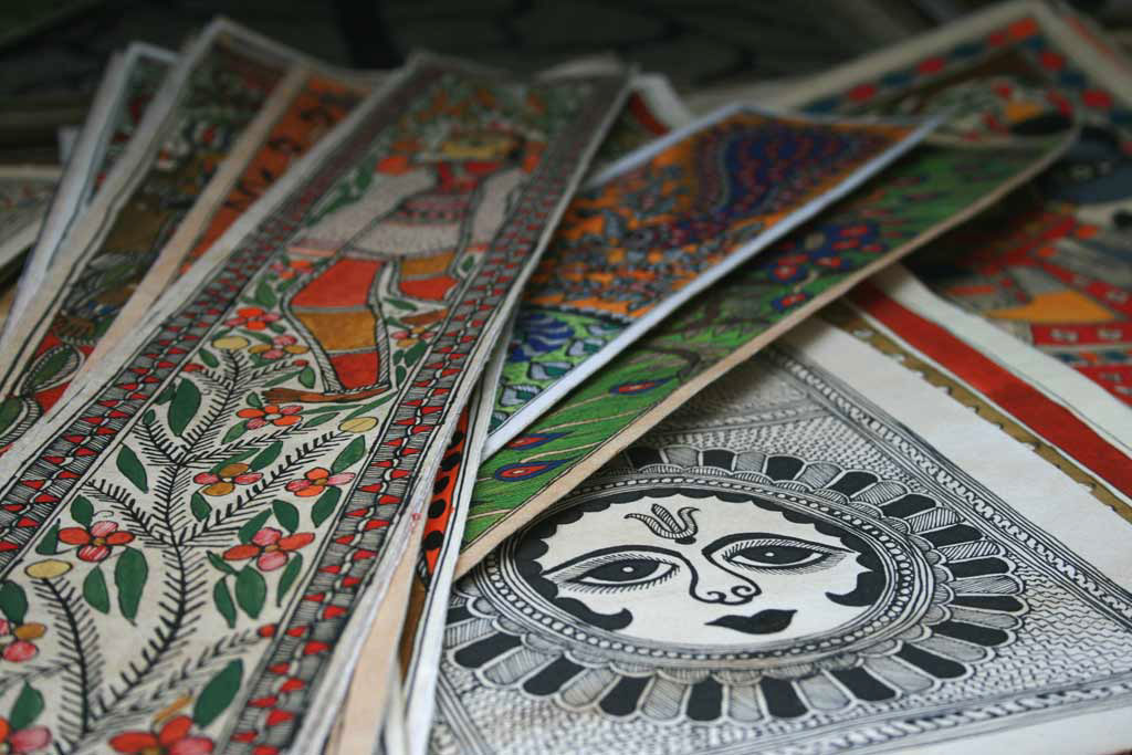 Samples of traditional Madhubani paintings from Bihar, for sale at Dastkaar.